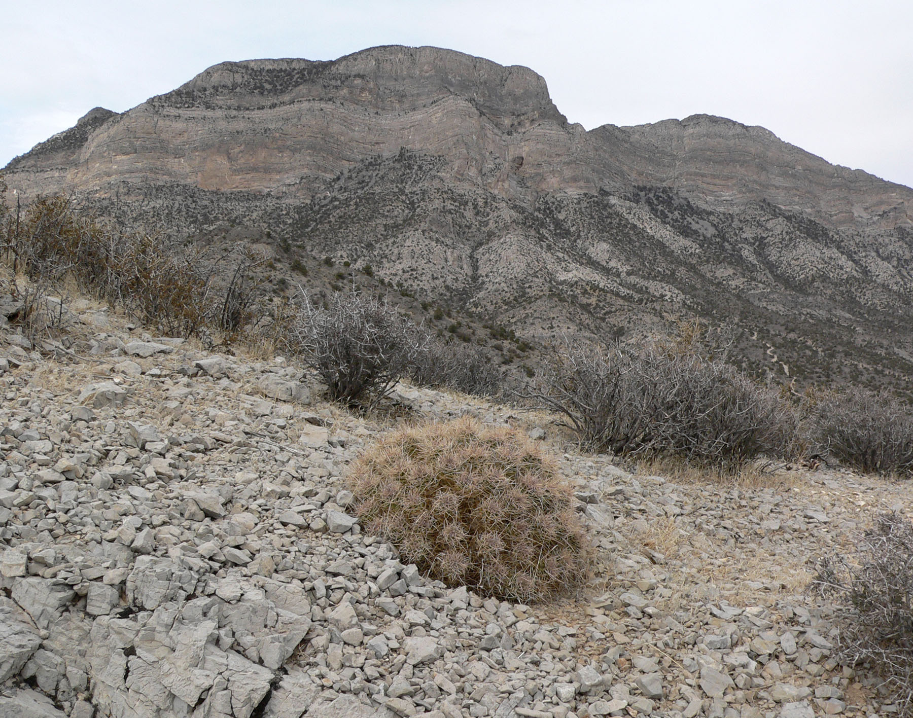 Echinocereus triglochidiatus on ridgetop just west of Turtlehead Peak with La Madre Mountain in the distance, Red Rock Canyon, southern Nevada